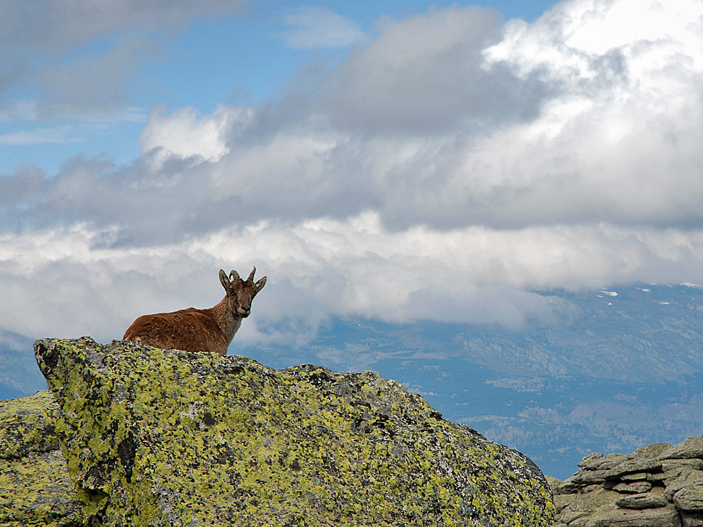 A Iberian ibex in La Najarra Mountain in the Mountain Range of Guadarrama, Madrid.